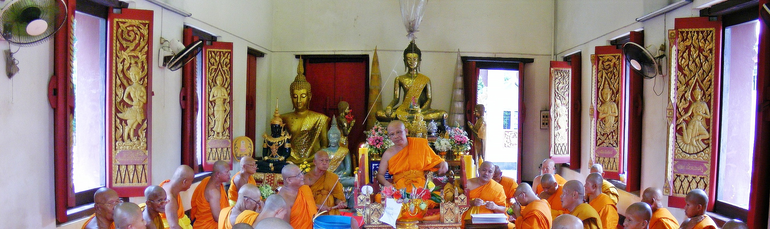 Buddhist monk in Buddhist church on Uposatha Day Location: Wat Khung Taphao Ban Khung Taphao, Khung Taphao subdistrict, Mueang Uttaradit, Uttaradit Province, Thailand.